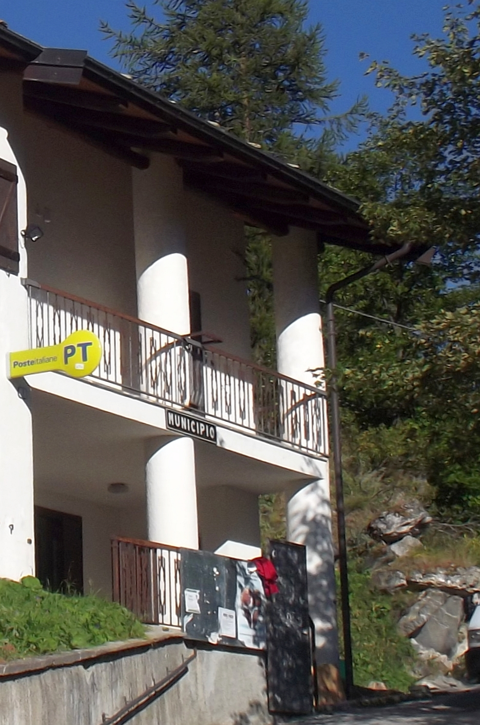 Bellino (CN, Italy): town hall